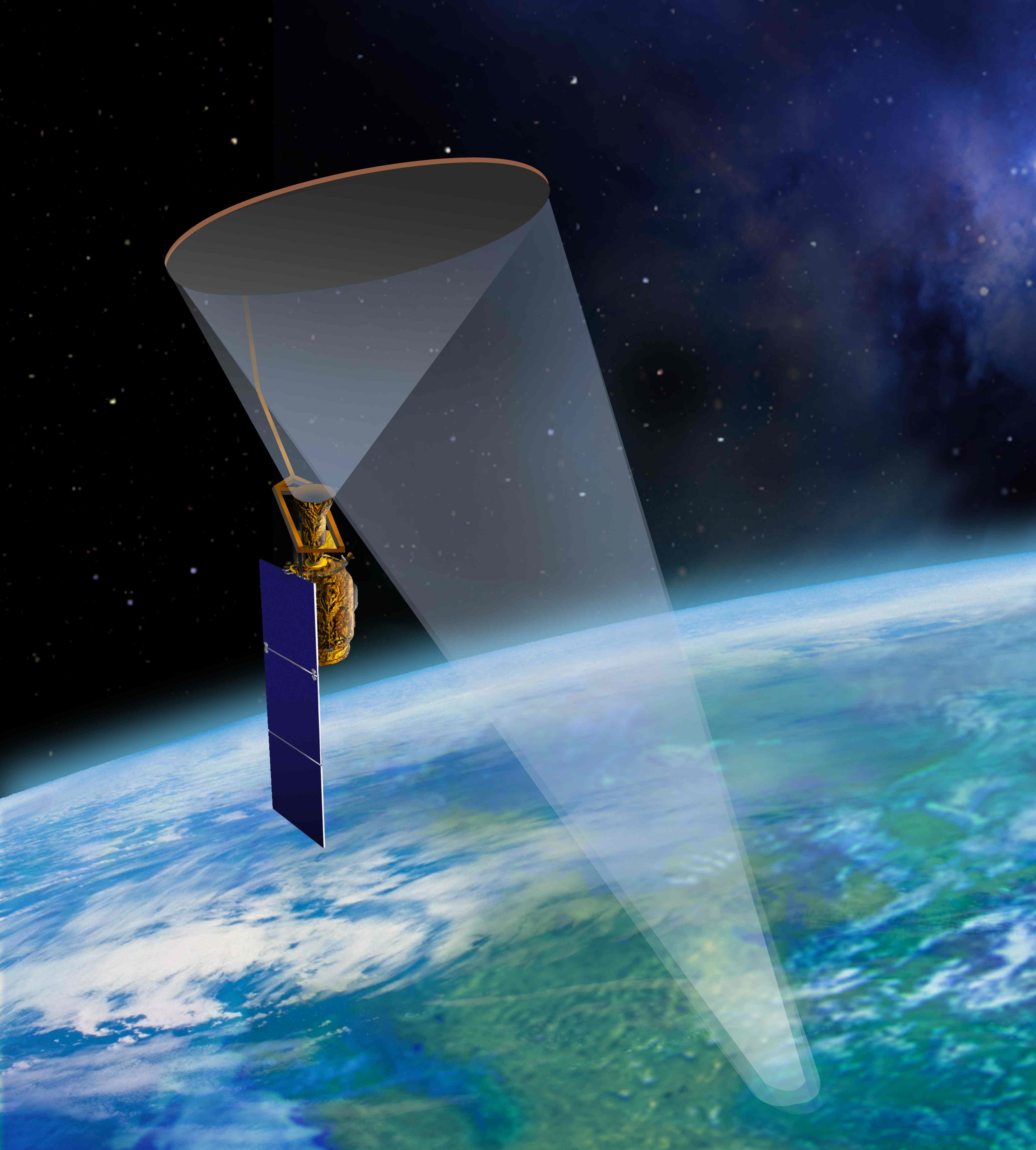 Generic artist rendition of SMAP spacecraft